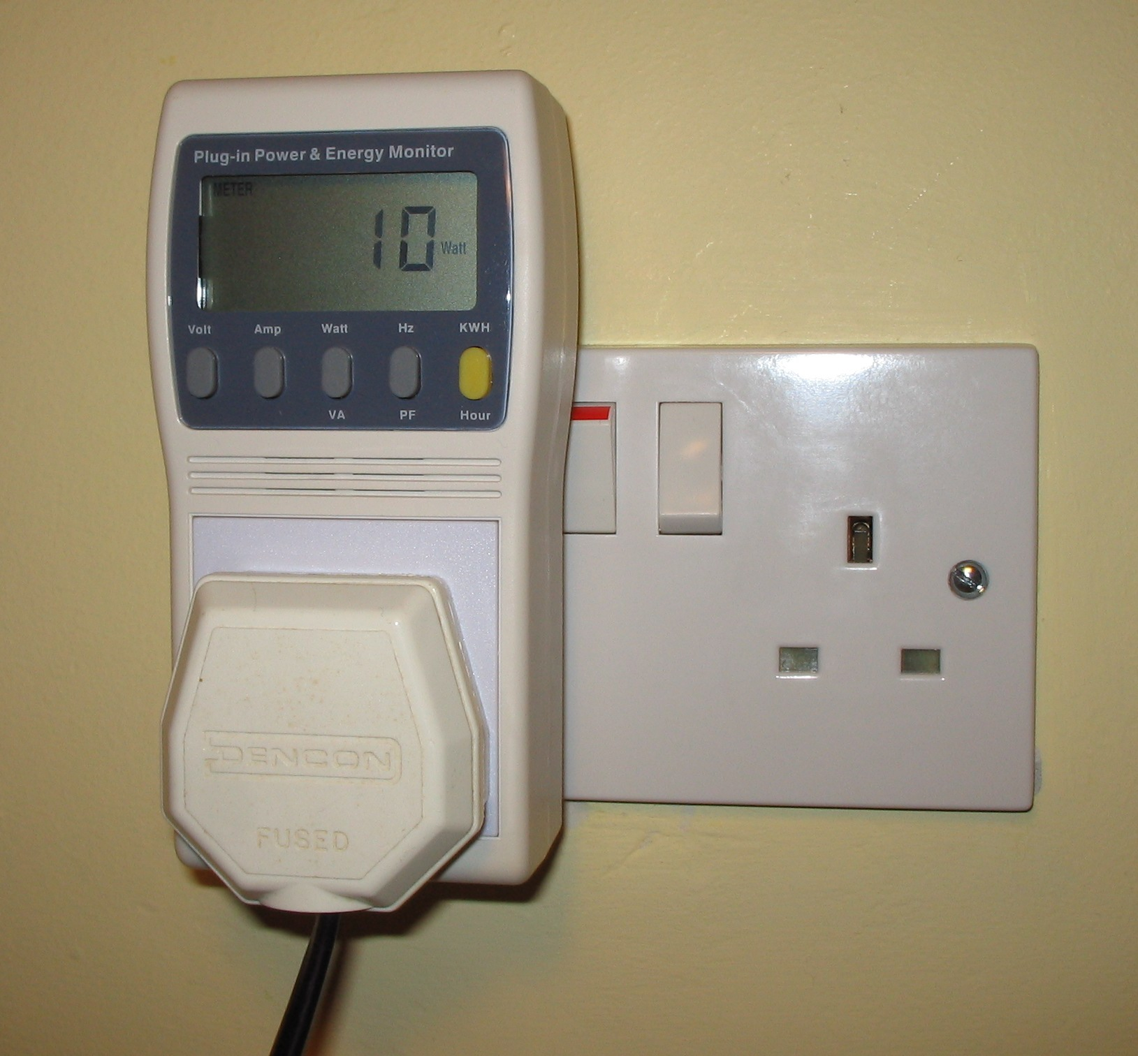 A Prodigit Model 2000MU Power & Energy monitor, plugged in to a UK domestic mains socket, shown in use and displaying 10 watts being drawn by the plugged-in appliance.